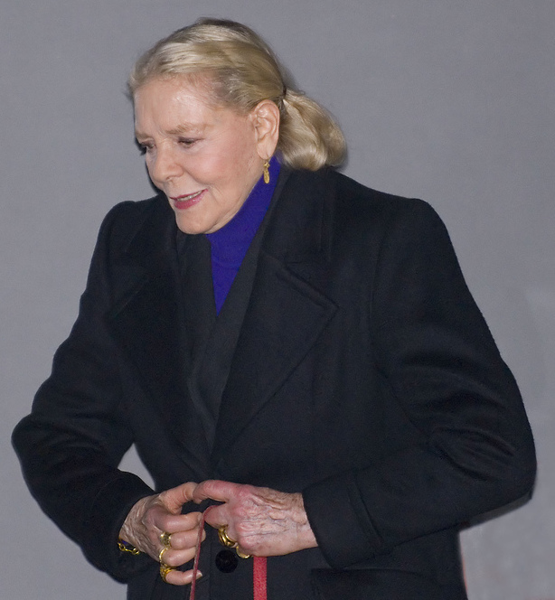 Lauren Bacall Press Conference of "The Walker" at the Hyatt Hotel, Potsdamer Platz, Berlin